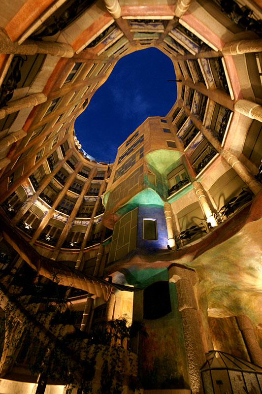 Casa Mila atrium at dusk